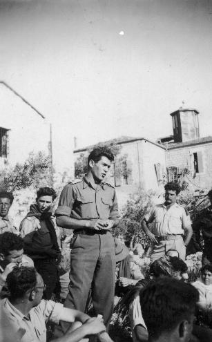 David Elazar addressing members of Harel Brigade. 1948 דמויות ומפקדים בגדוד הרביעי- אלבום: חטיבת הראל הגדוד הרביעי הפורצים יחידות המטה 5 תאור התמונה: במלאת שנה לקרב קטמון מופיעים בתמונה: במרכז: דוד (דדו) אלעזר, מימין: יוסי רביב, משה סלע, מאחור: רפאל איתן תאריך צילום: 48 מס' עמוד באלבום: 69 מס' תמונה: 9539 נתקבל מ: יוסי רביב : כ.יהושוע